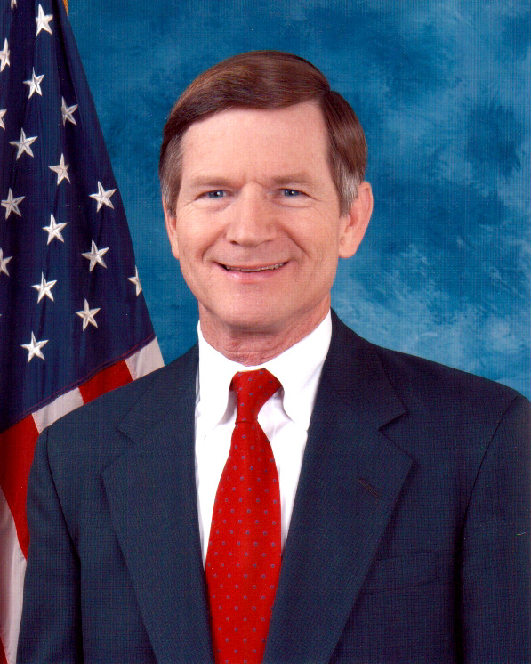 Lamar S. Smith, member of the United States House of Representatives